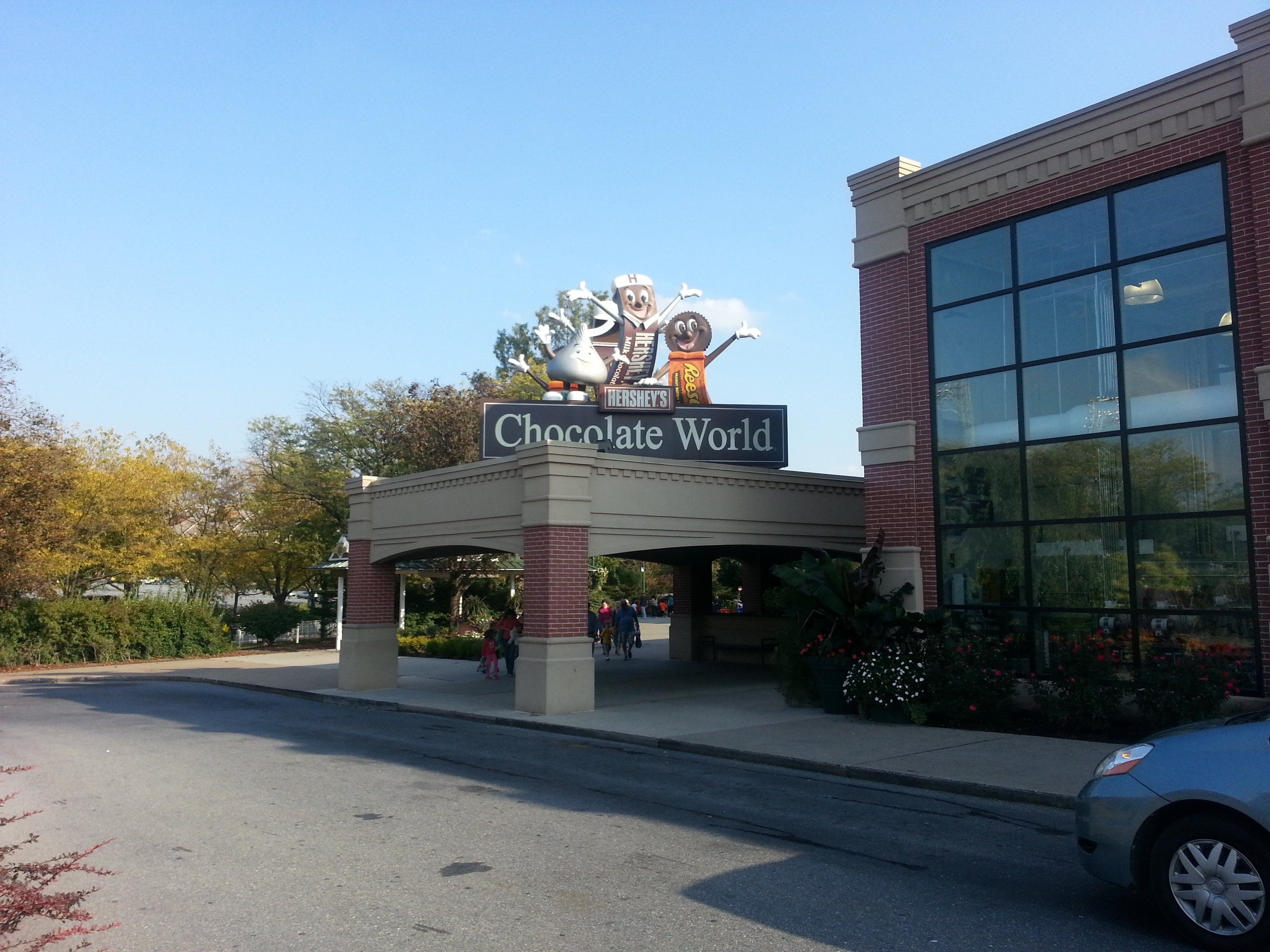 Main Picture Spot for Chocolate World